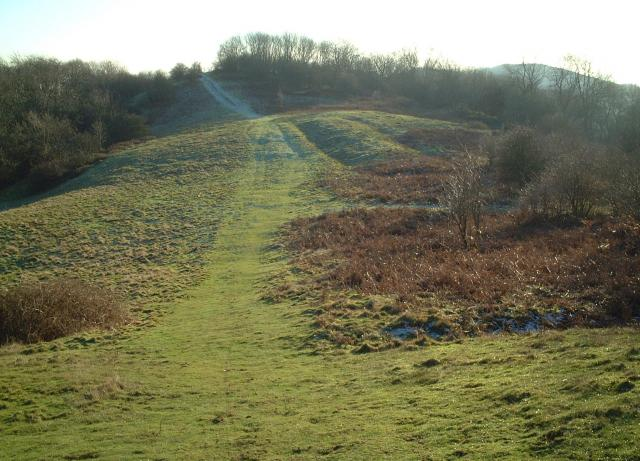 Pillow Mound (Rabbit Warren) Hollybush Hill, Malvern Hills. Inside the Midsummer Hill Iron Age hill fort this rectangular feature is still described on OS maps as a "Pillow Mound", but is now understood to be a mediaeval rabbit warren. National Trust property.